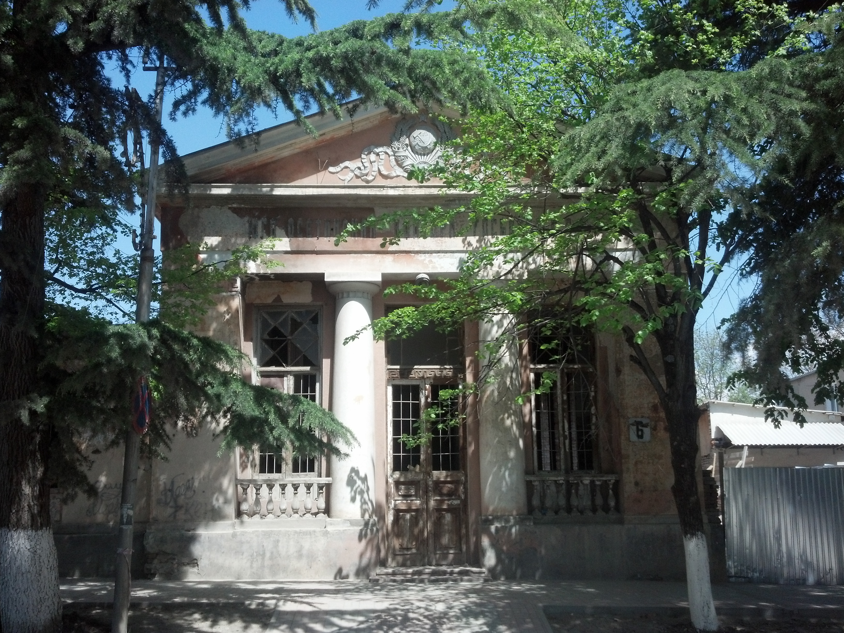 Former Gosbank office in Tskhinvali, South Ossetia